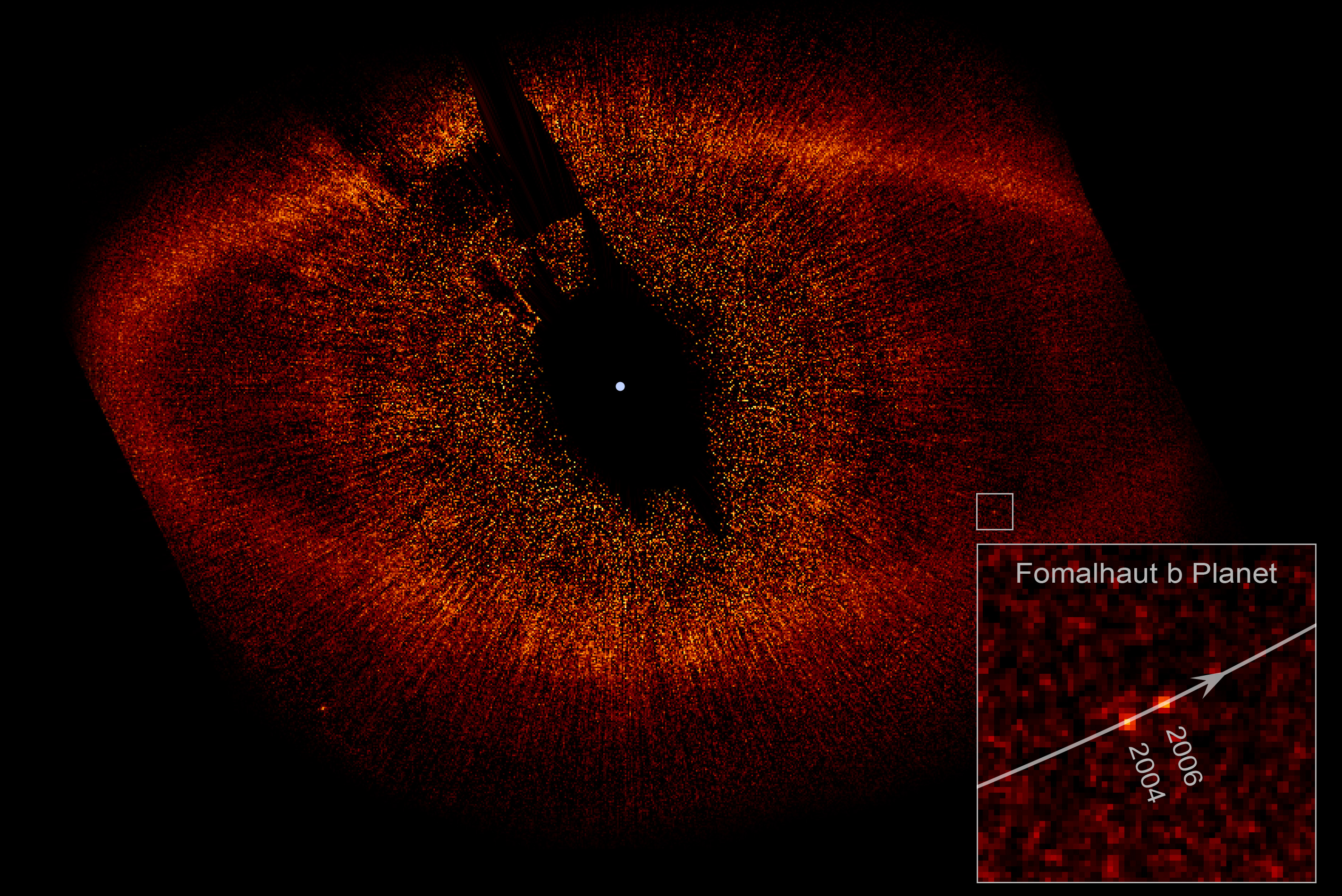 Coronagraph of star Fomalhaut showing disk ring and location of extrasolar planet b.